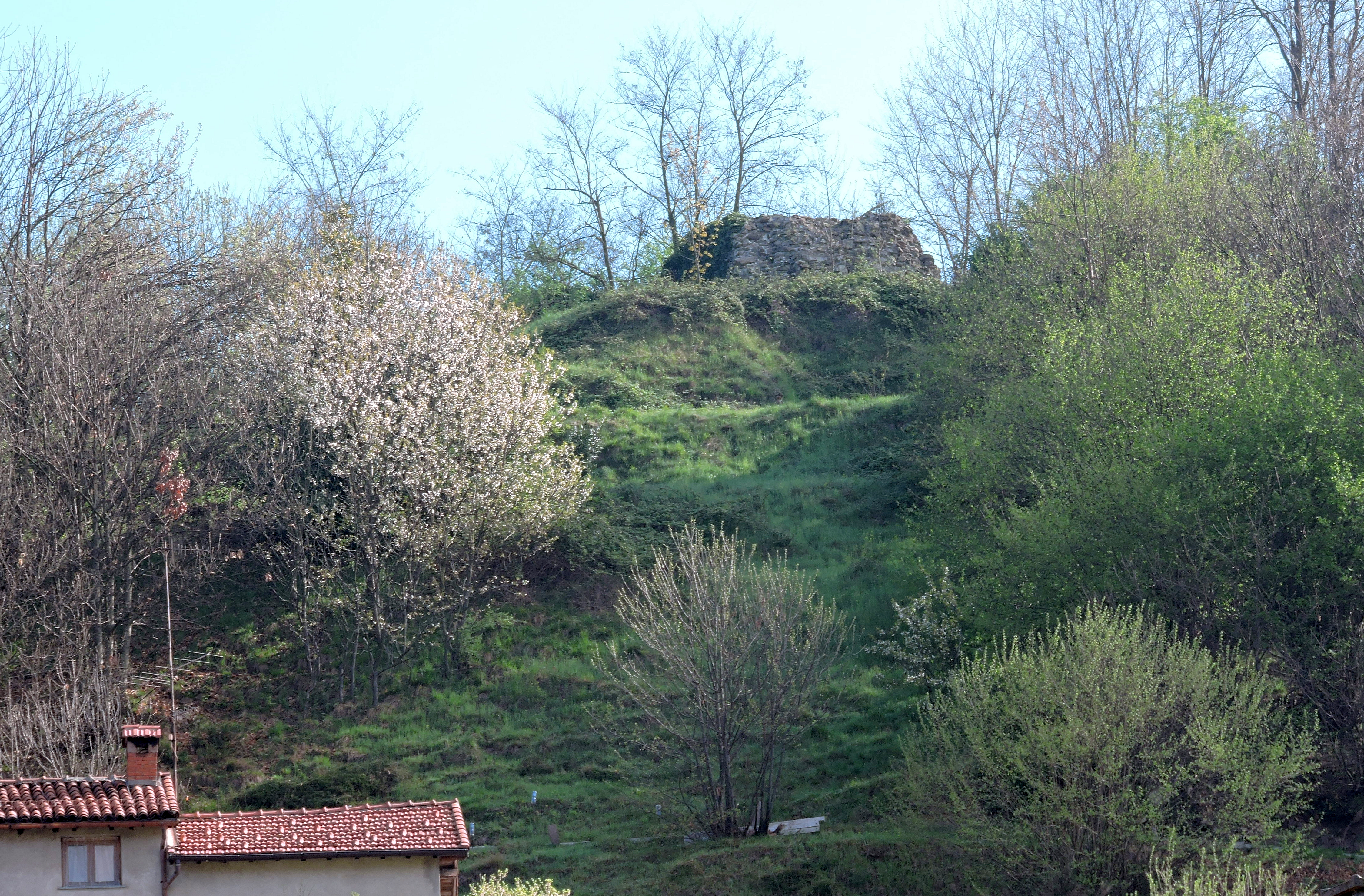 Altare (SV, Italy)ː remains of the castle